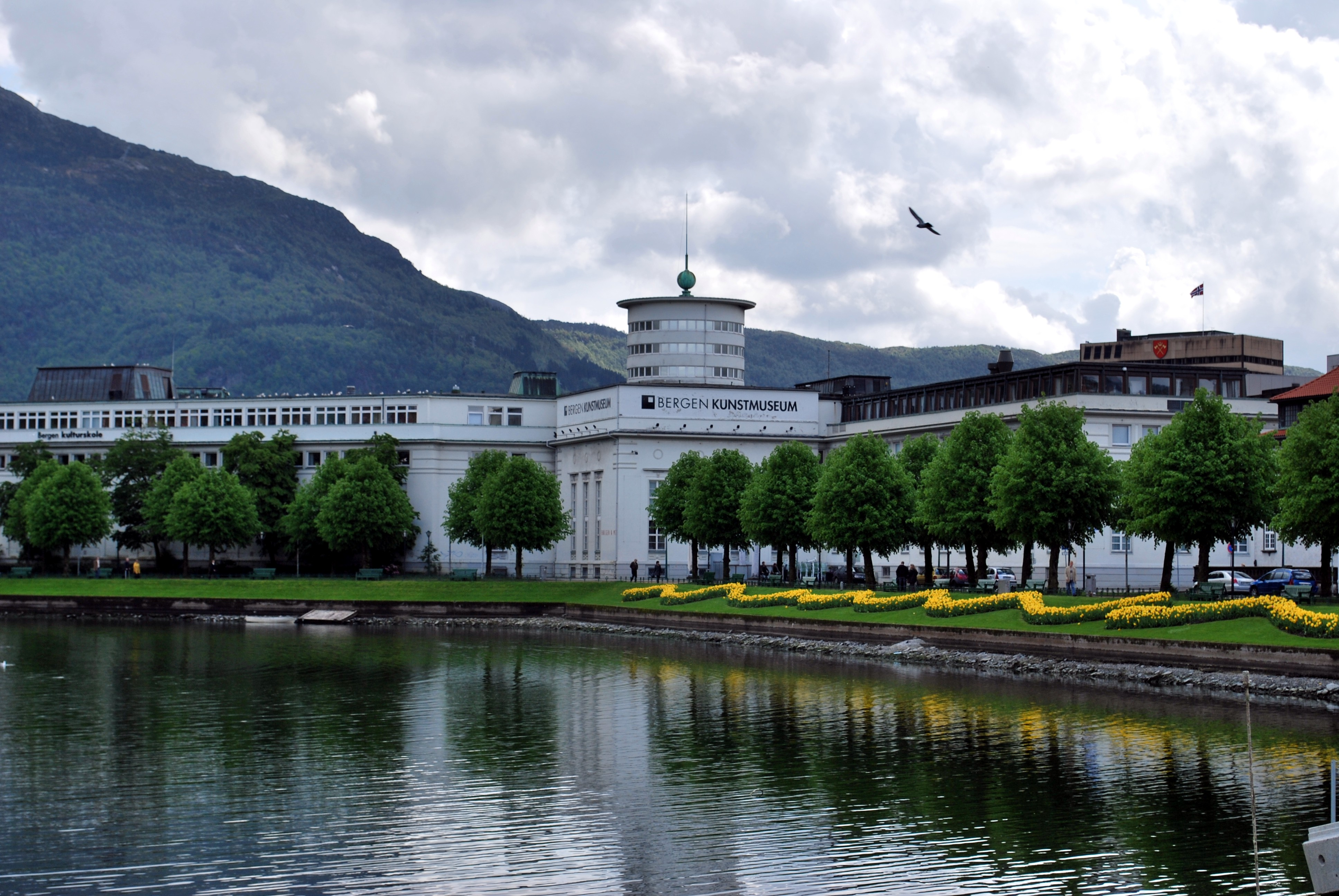 Art museum in Bergen, Norway: Bergen Bergen Kunstmuseum - Lysverket.